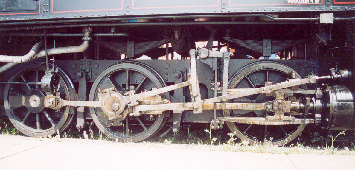 Detail of Allan-Trick system of locomotive engine Czech locomotive 310.093 Author:Stanislav Jelen